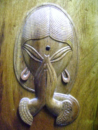 Raj Marketing Mysore is all types of Mosquito Net for Windows Dealers in Mysore.